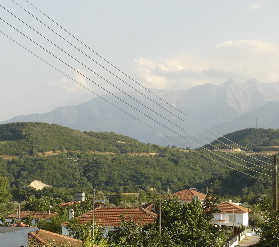 View from Lagorachi.